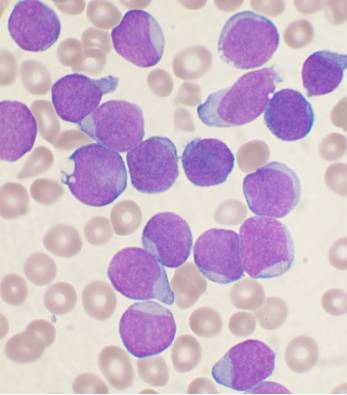 A Wright's stained bone marrow aspirate smear of patient with precursor B-cell acute lymphoblastic leukemia. Picture taken by me.